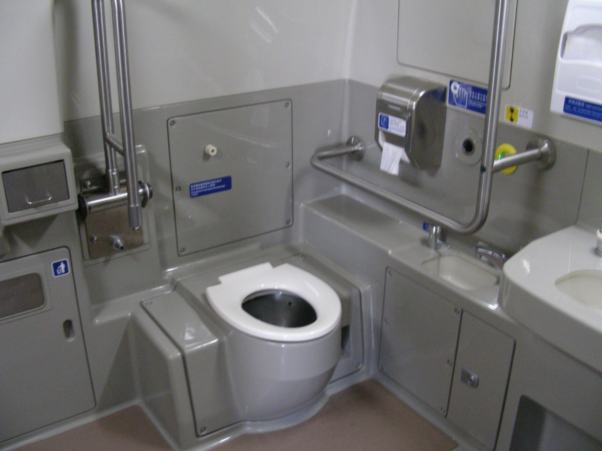 Taiwan HSR(High Speed Rail) Train, Disable-Friendly Lavatory.